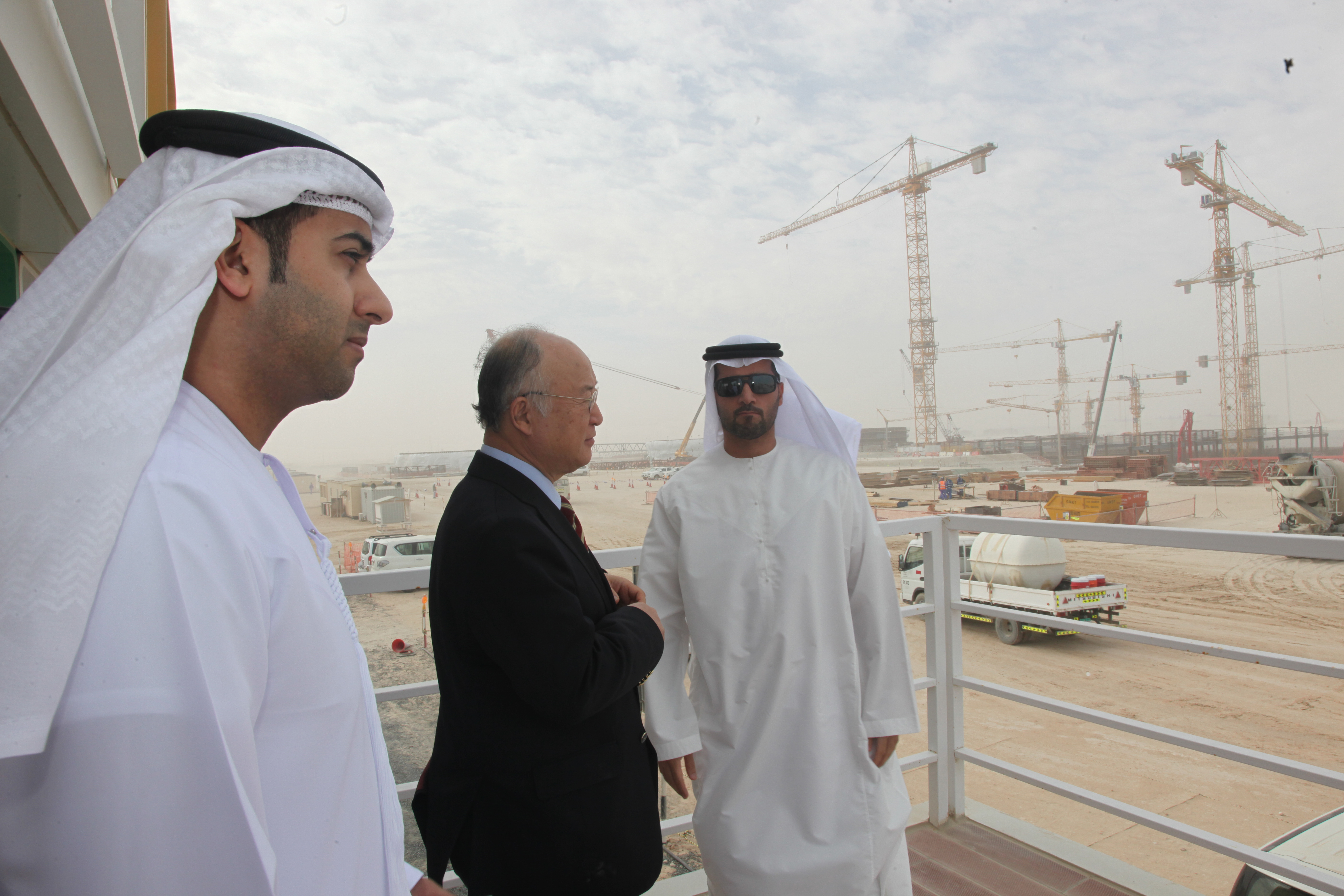 IAEA Director General Yukiya Amano at Barakah nuclear power plant construction site, United Arab Emirates Mr. Mohamad Al Hammadi (right), Chief Executive Officer of the Emirates Nuclear Energy Corporation (ENEC), Ambassador Hamad Al Kaabi (left), Resident Representative of UAE to the IAEA, and IAEA Director General Yukiya Amano (middle) view construction under way at the Barakah nuclear power plant construction. 29 January 2013